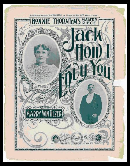 Jack How I Envy You with Tony Pastor and Bonnie Thorton